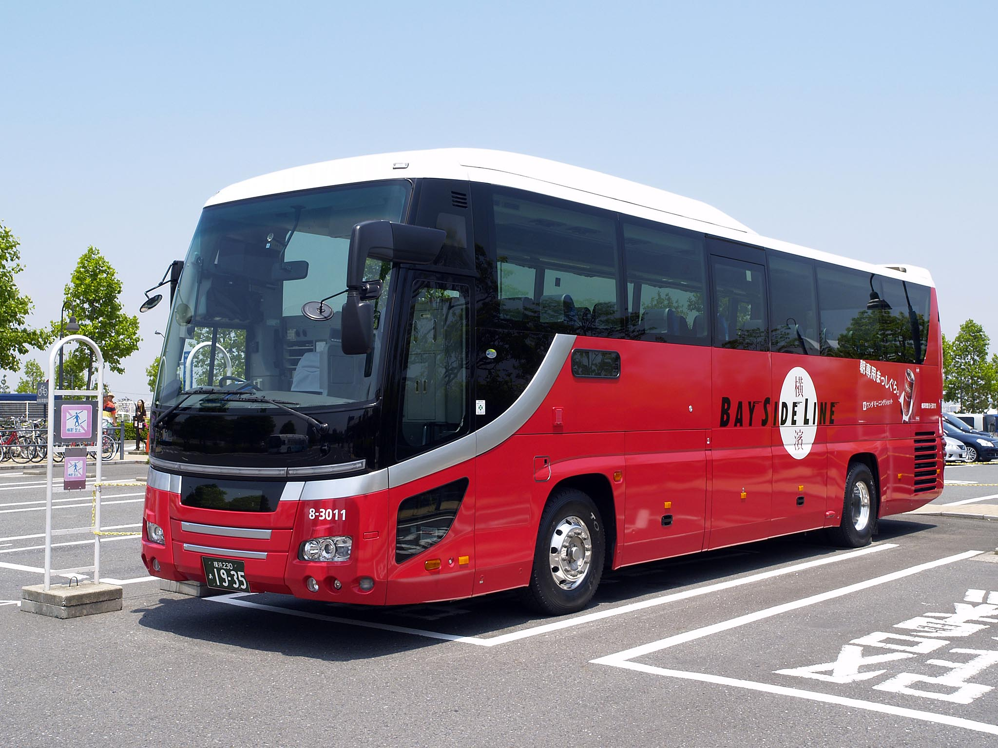 Fleet of Yokohama City municipal bus, for city tour "Bay Side Line" since December 2008. Model: Hino Selega SHD PKG-RU1ESAA License plate: KNY230 A1935 Place: Yokohama Red Brick Warehouse, Naka Ward, Yokohama City, Kanagawa Japan